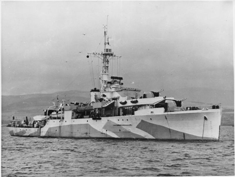 Photograph of British sloop HMS Amethyst.